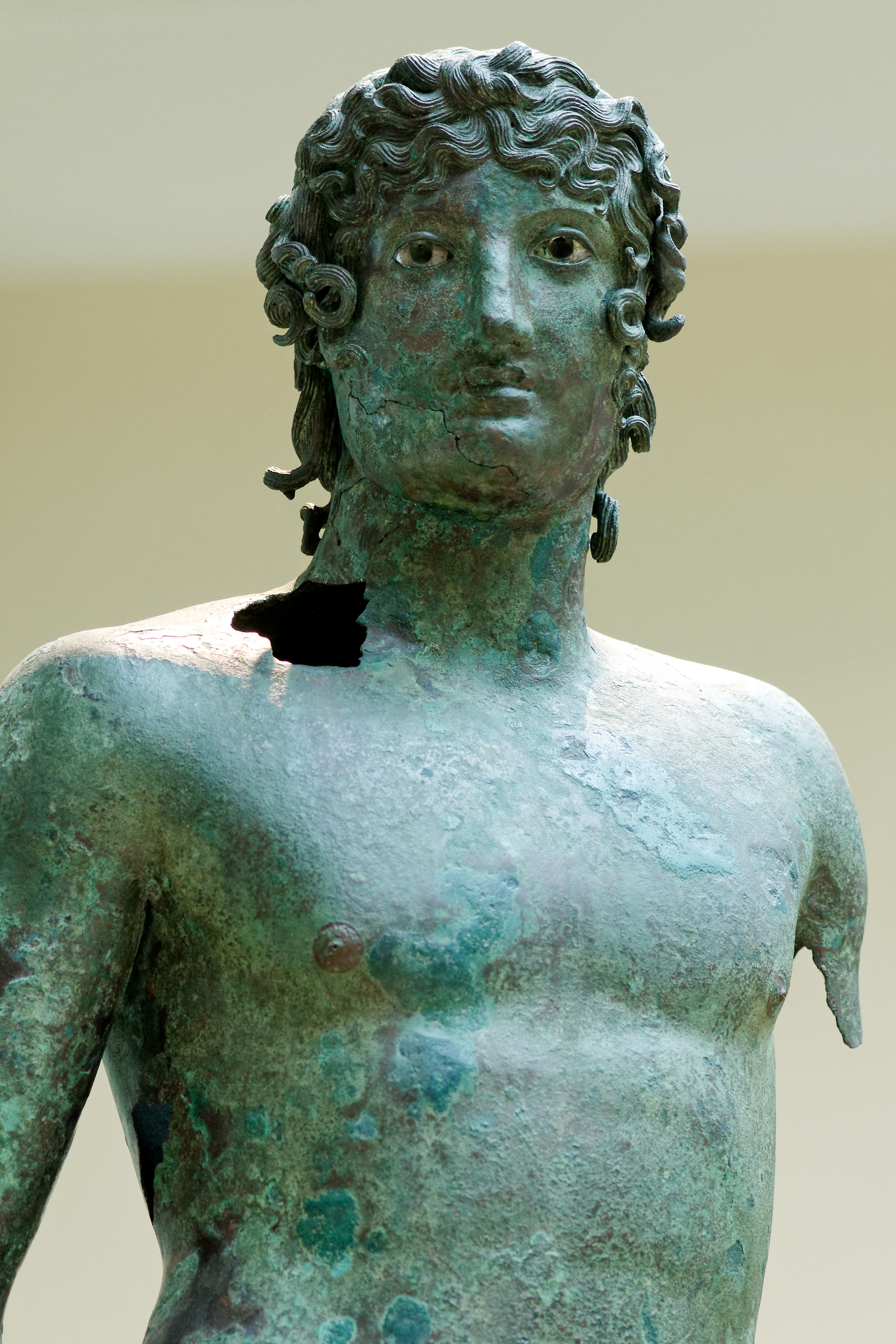 Statue of a young man. Bronze, Roman copy of the 1st century BC after a Greek original.